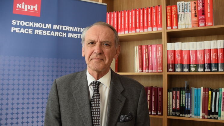 Jan Eliasson SIPRI